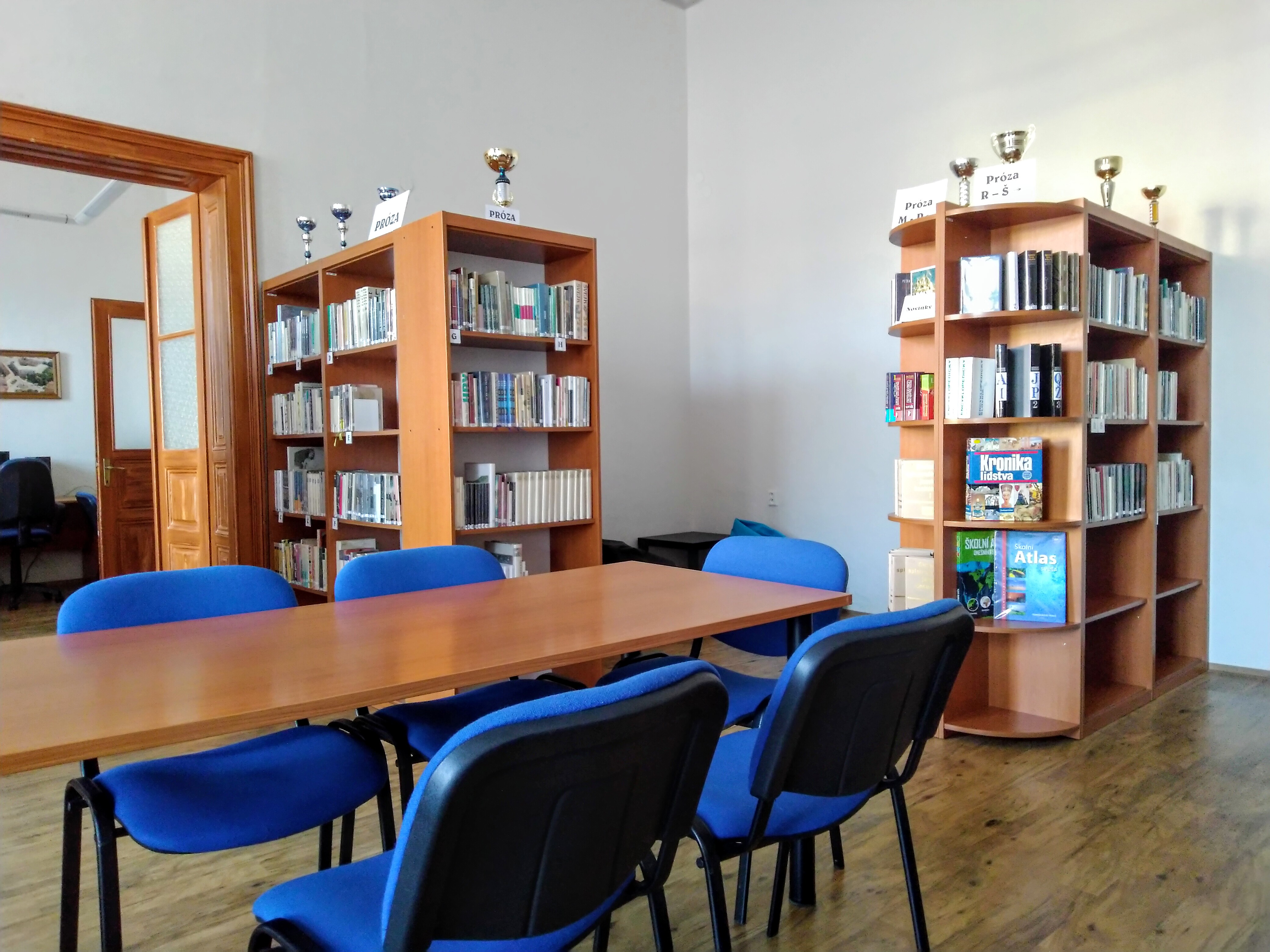 Detail of the studyroom in the school library, Gymnázium Dr. Karla Polesného